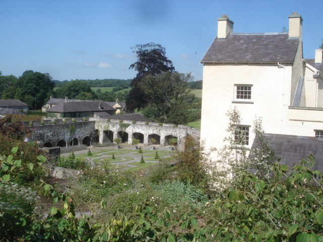 Aberglasney Gardens Open to the public for several years now. In 1995 the site was completely overgrown and the house was in a state of disrepair. The Aberglasney Restoration Trust have made a spectacular job of bringing it back to life.